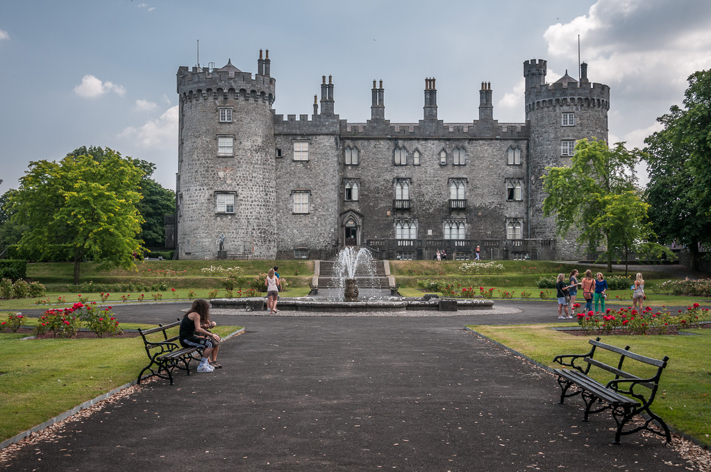 Kilkenny Castle in Ireland. View from de gardens.